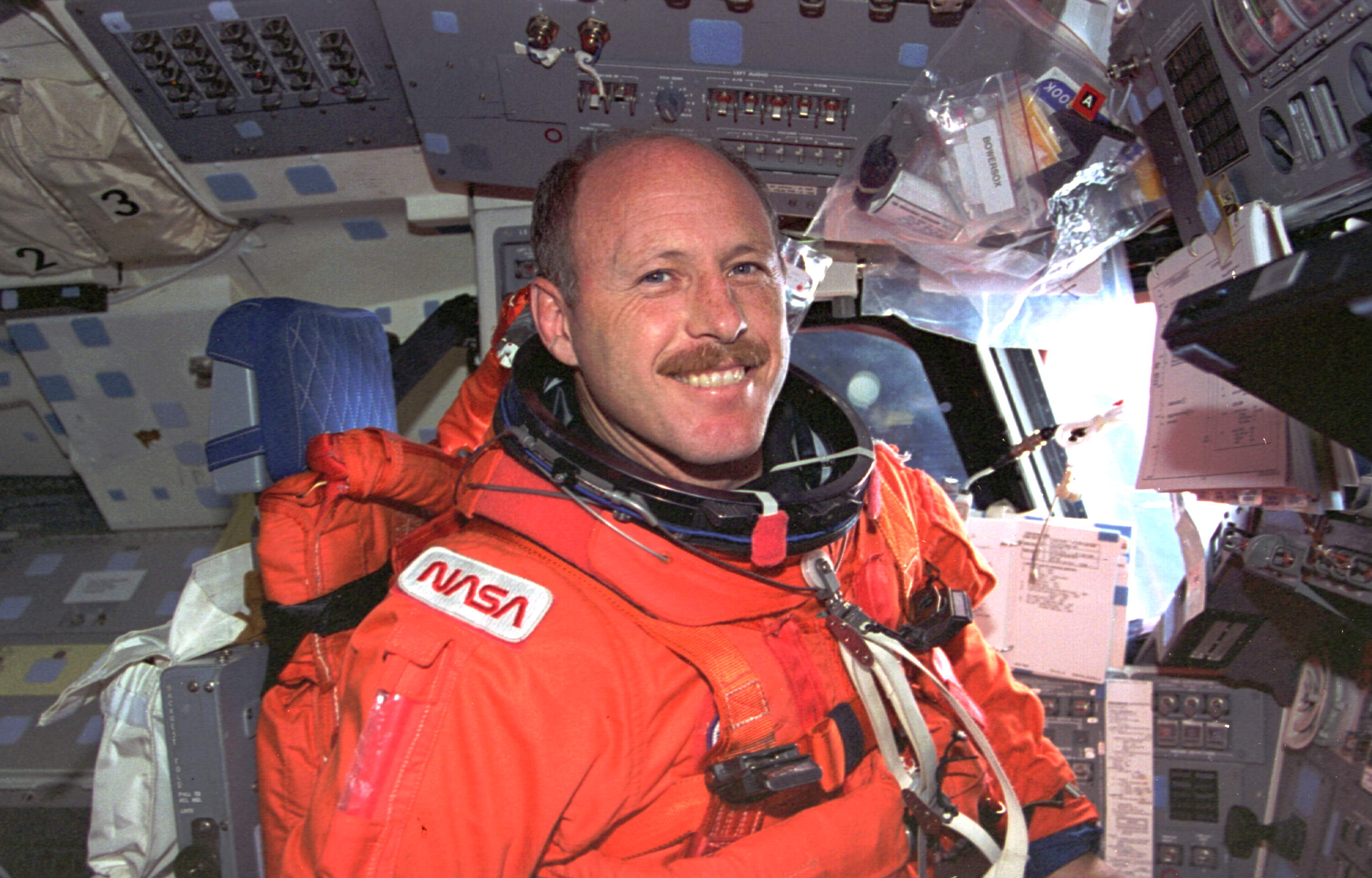 STS073-164-025 (5 November 1995) --- The countenance of astronaut Kenneth D. Bowersox signifies the near completion of a successful 16-day mission in Earth-orbit aboard the Space Shuttle Columbia. Bowersox, attired in the shuttle launch and entry garment, mans the commander's station prior to the entry phase of the flight.